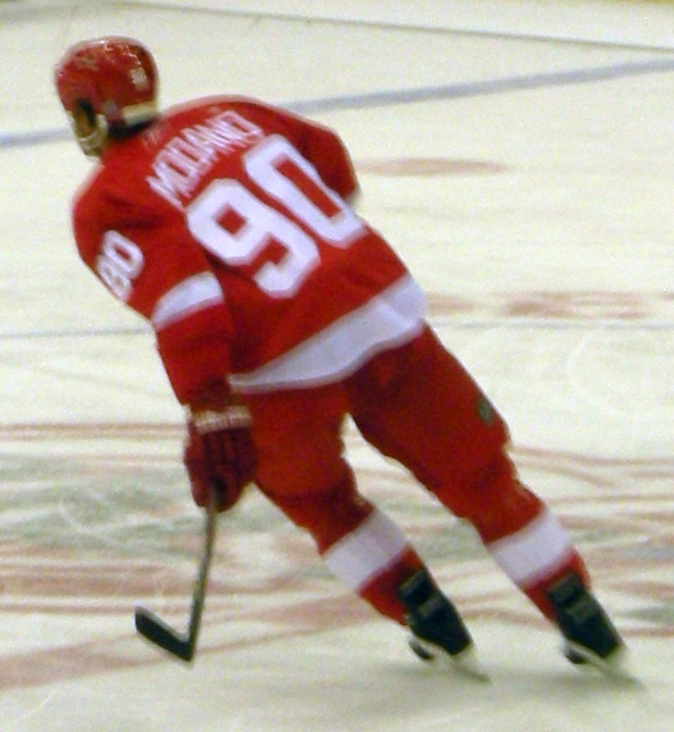 Mike Modano during the Anaheim Ducks vs. Detroit Red Wings ice hockey game at Joe Louis Arena in Detroit, Michigan (United States). Detroit won 4–0.